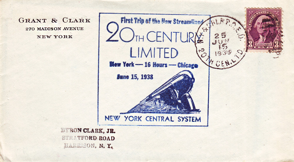 Postal Cover carried in the RPO on the first streamlined run of the 20th Century Limited (New York Central System), June 15, 1938